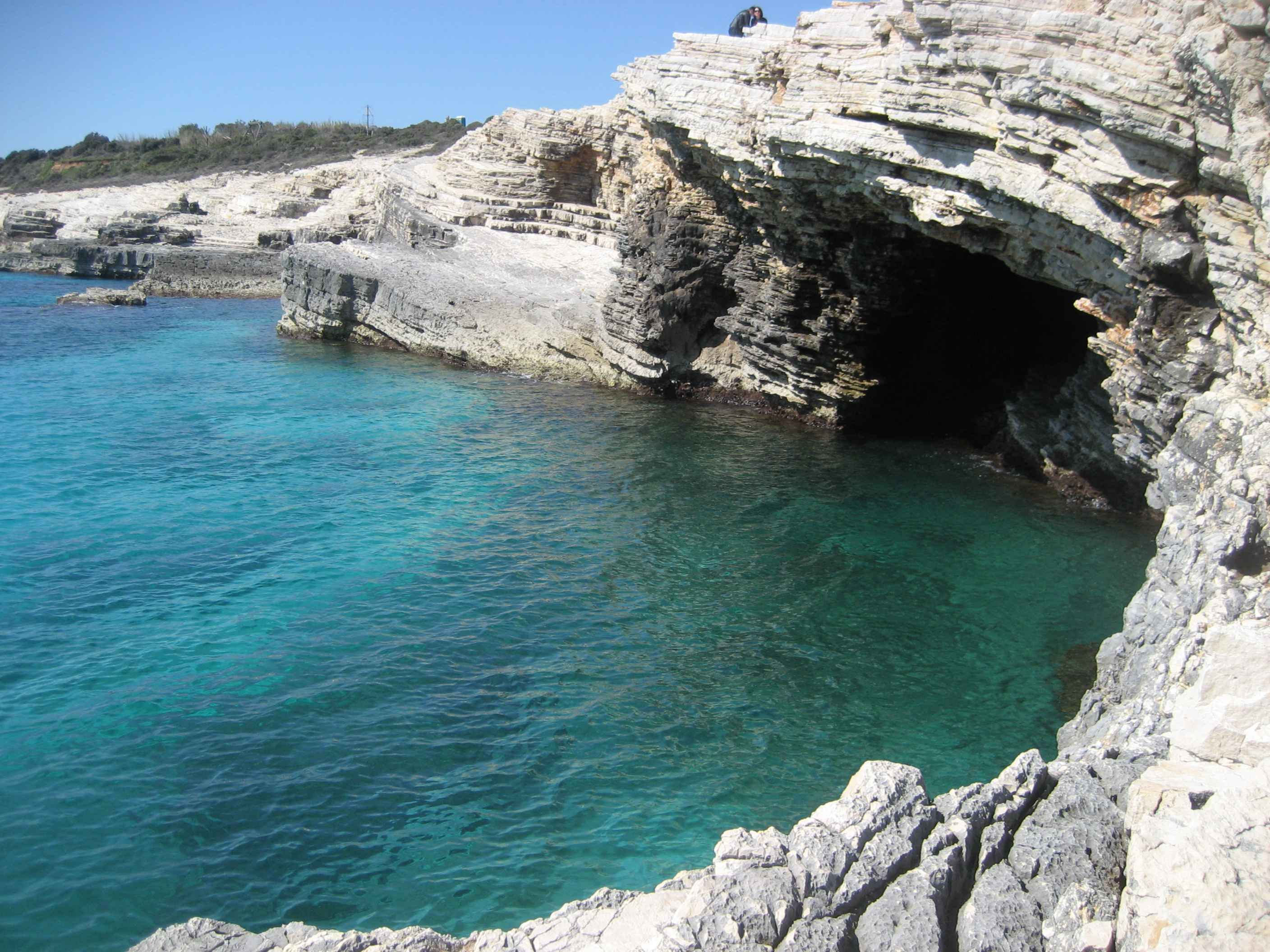 Cape Kamenjak, Northwest Croatian Coast